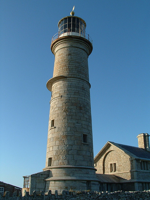 The old and now unused lighthouse on Lundy Island